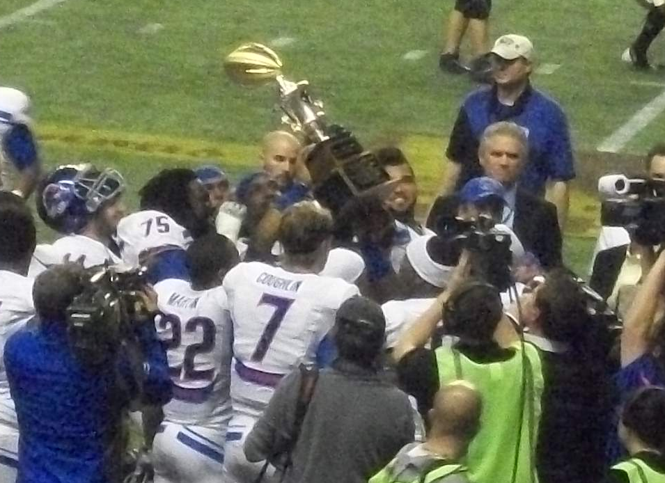 The Boise State football team celebrating with the Governors Trophy, which goes to the winner of the Boise State vs Idaho football game, after their victory over Idaho on November 12, 2010 at the Kibbie Dome in Moscow, Idaho.